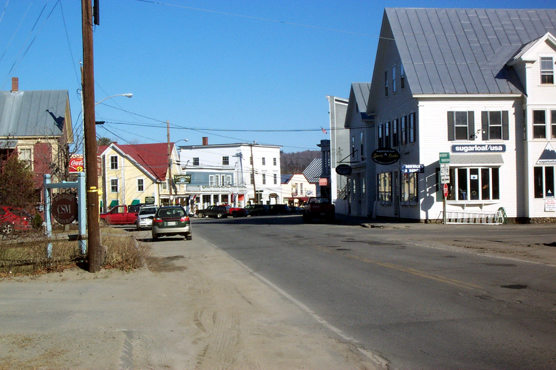 Intersection of Maine State Routes 16 & 27, and Route 142 in downtown Kingfield